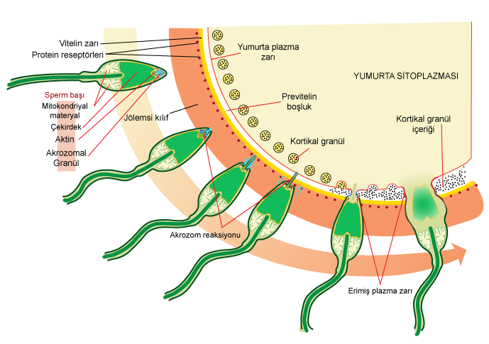 diagram that shows the steps of a acrosome reaction as it happens in the Sea Urchin. the diagram i made myself using the diagrams on: [1] , [2],and [3]. i used adobe illustrator to do it, and i am freeing it into public domain